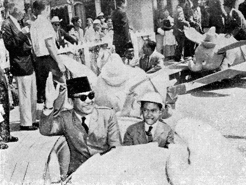 Sukarno and his son Guntur in Disneyland